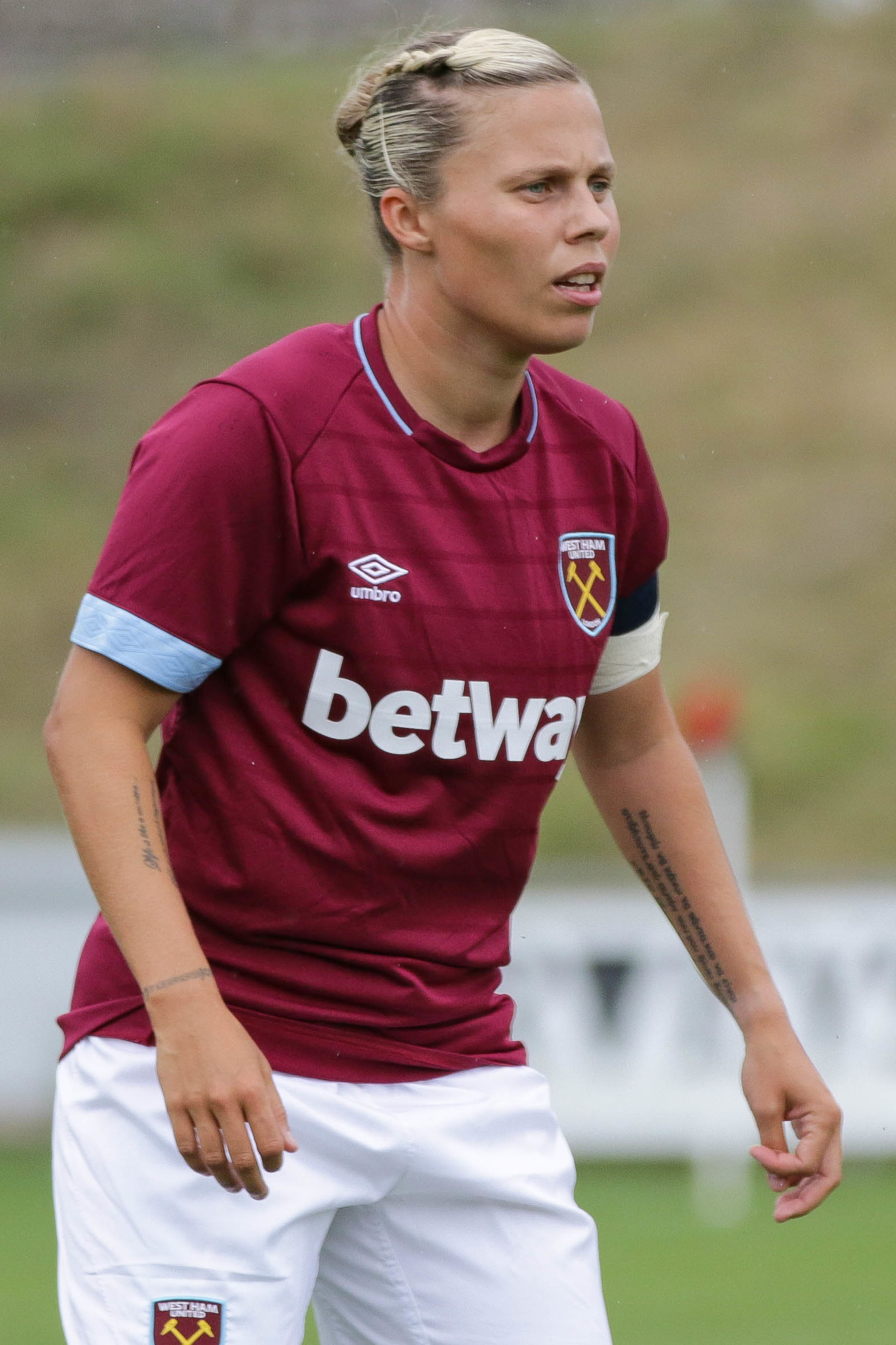 Lewes FC Women 0 West Ham Utd Women 5 pre season 12 08 2018-196.jpg